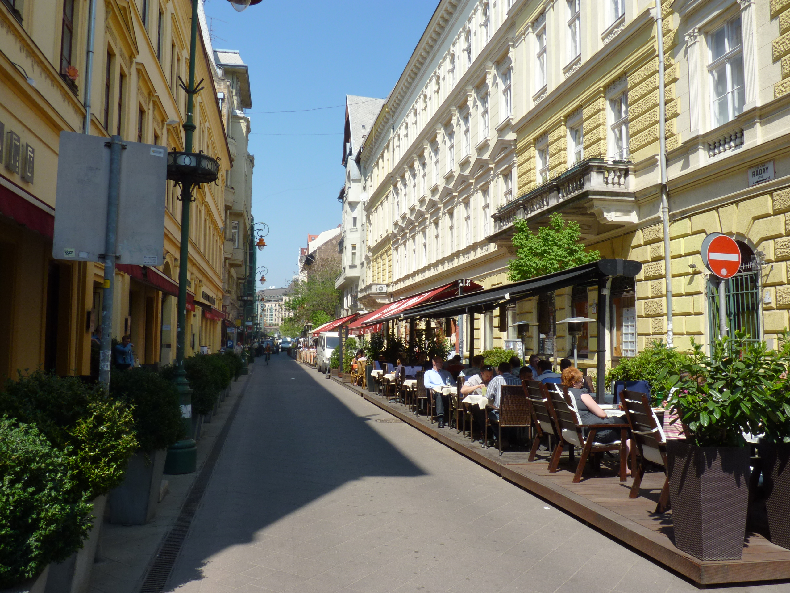 Restaurant at 16 Ráday utca, Budapest District IX., Hungary.